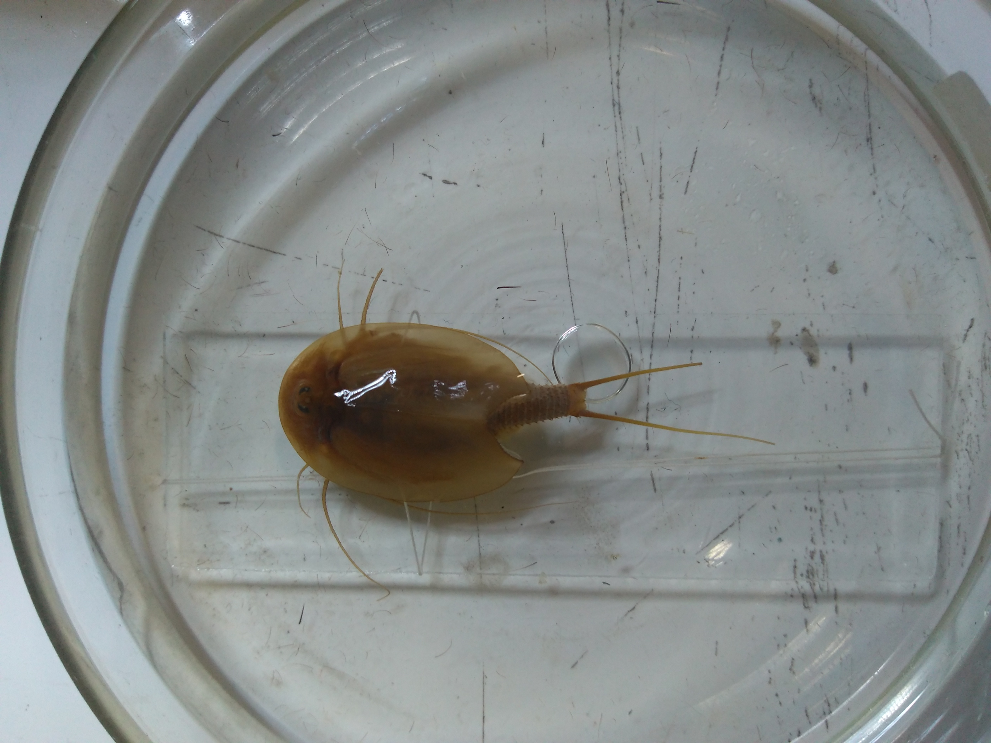 Image focused on the Notostraca dorse, emphasizing the sensorial appendices, the telson and the carapace. Analyzed with magnifying glass